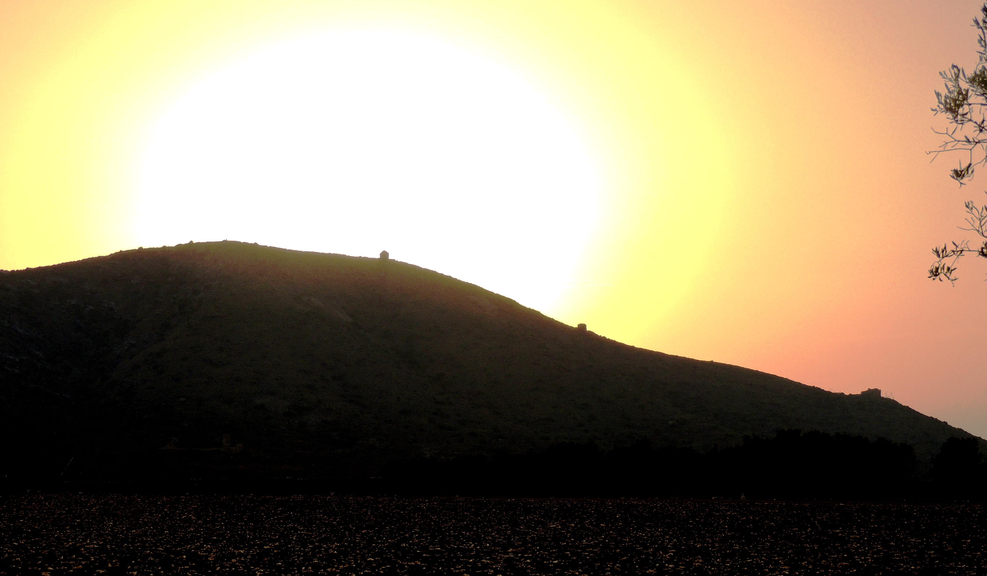 Atardecer en el Monte Miral